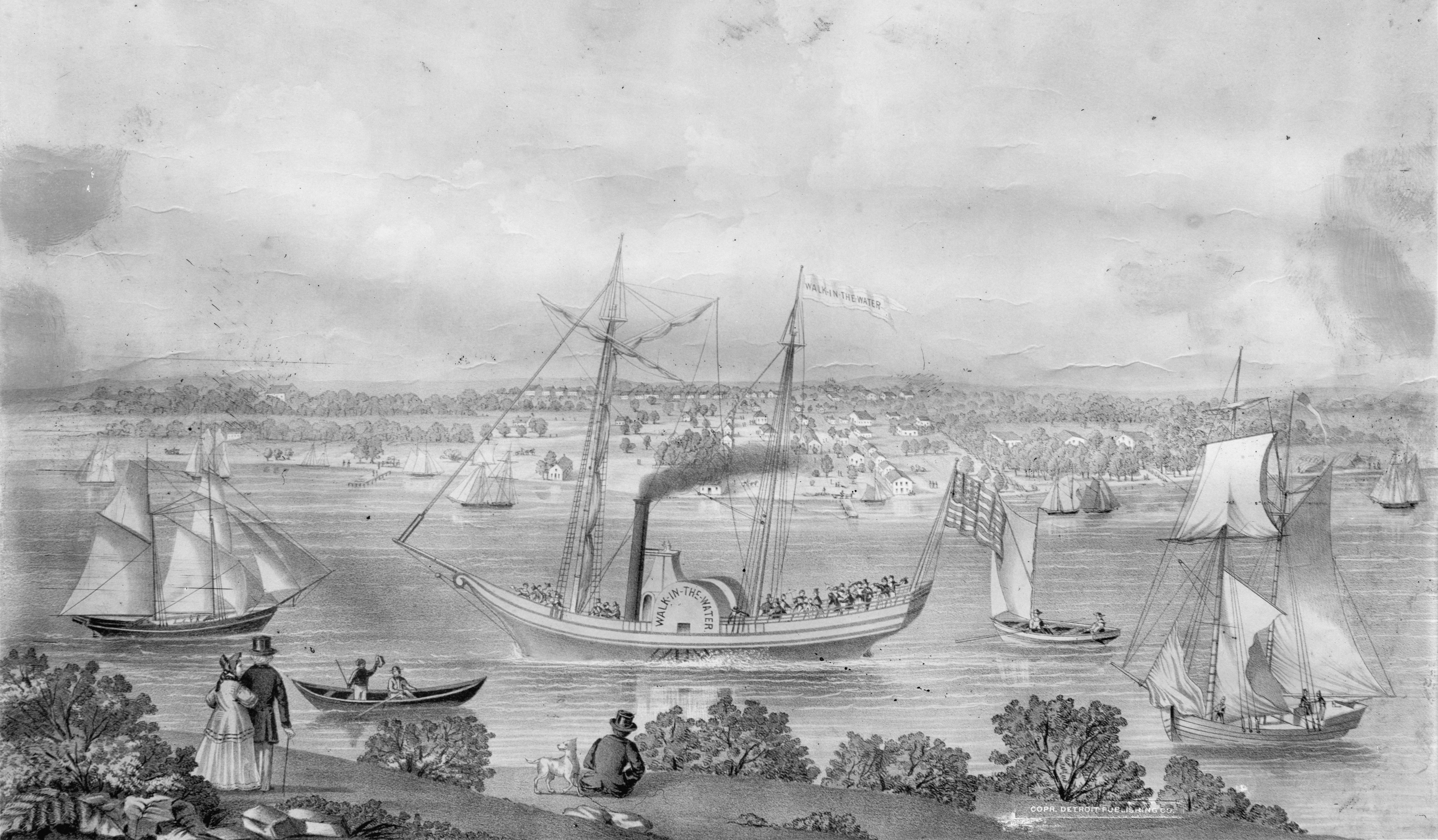 The city of Detroit in 1820, with the steamboat Walk-in-the-Water in the foreground. Built in 1818, Walk-in-the-Water was the first steamboat to operate on Lakes Erie, Huron and Michigan.